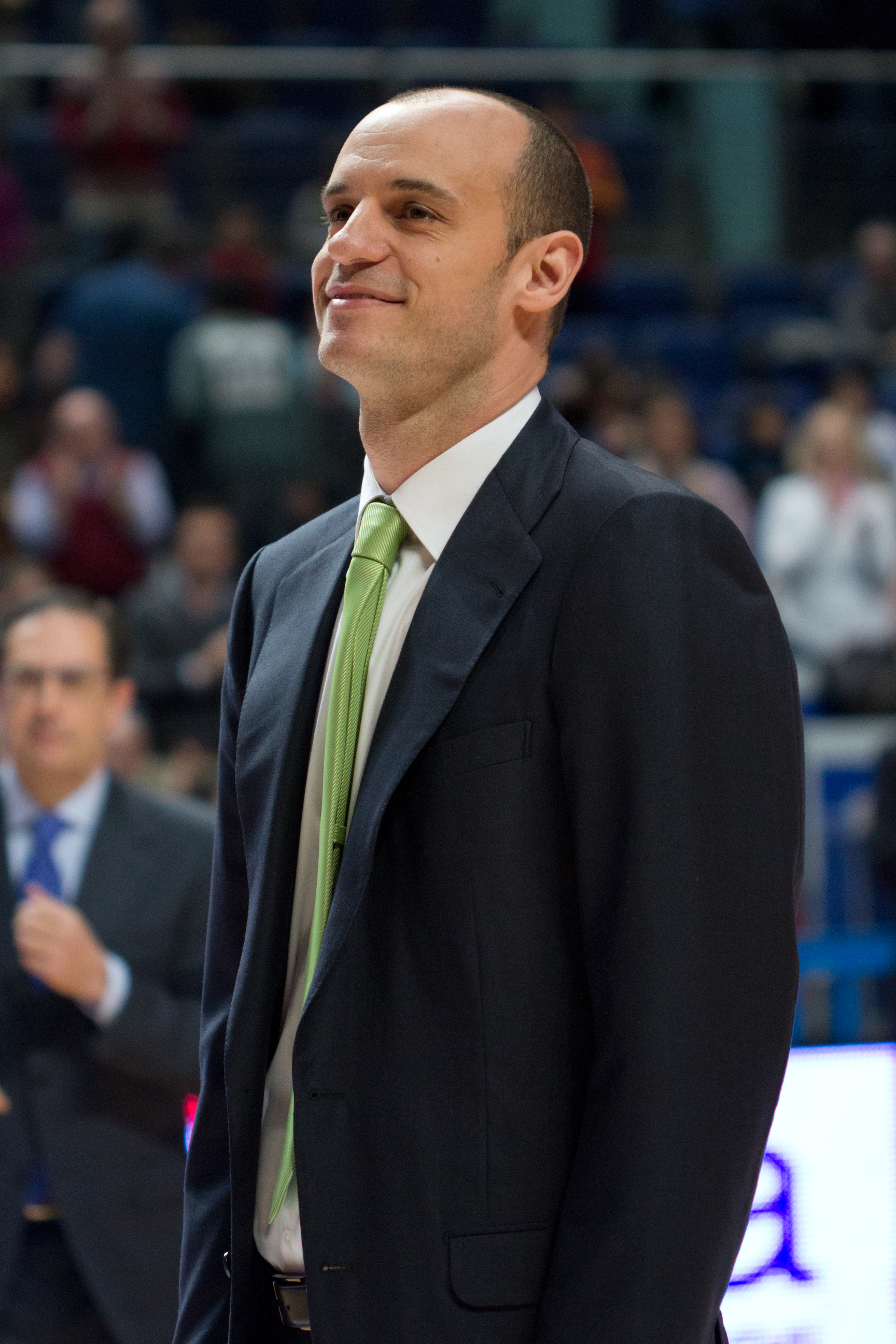 Hommage to Carlos Jiménez before the game Estudiantes vs Unicaja de Málaga.